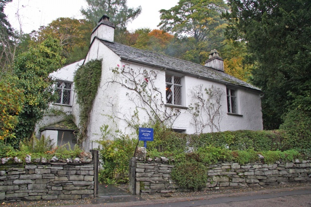 Dove Cottage. This tiny cottage is a magnet for tourists from all over the world, as it was once the home of the poet William Wordsworth and is now a museum. It is actually situated slightly outside the village of Grasmere, on the White Moss road at Town End.